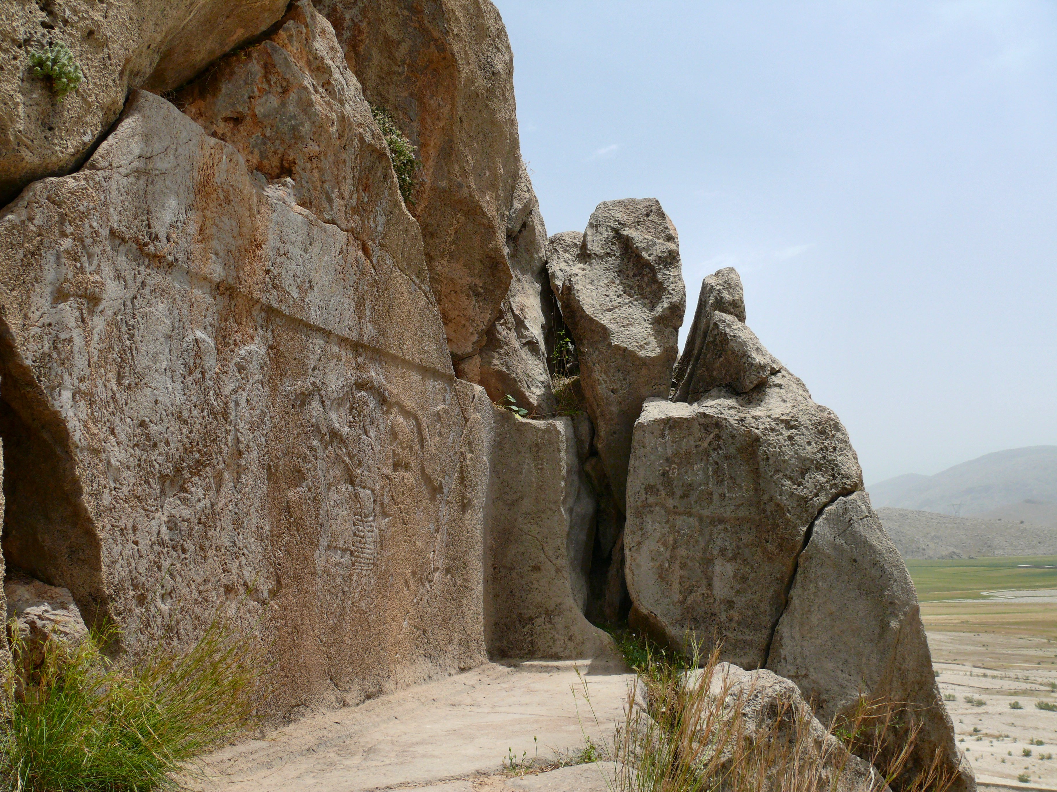 The central and right later added panels of the Elamite Rock relief of Kurangun. Taken in Seh Talan village, Fahlian district, Vicinity of Noorabad, Fars province, Iran, May 2009.